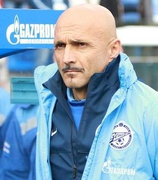 Luciano Spalletti coaching FC Zenit St. Petersburg.